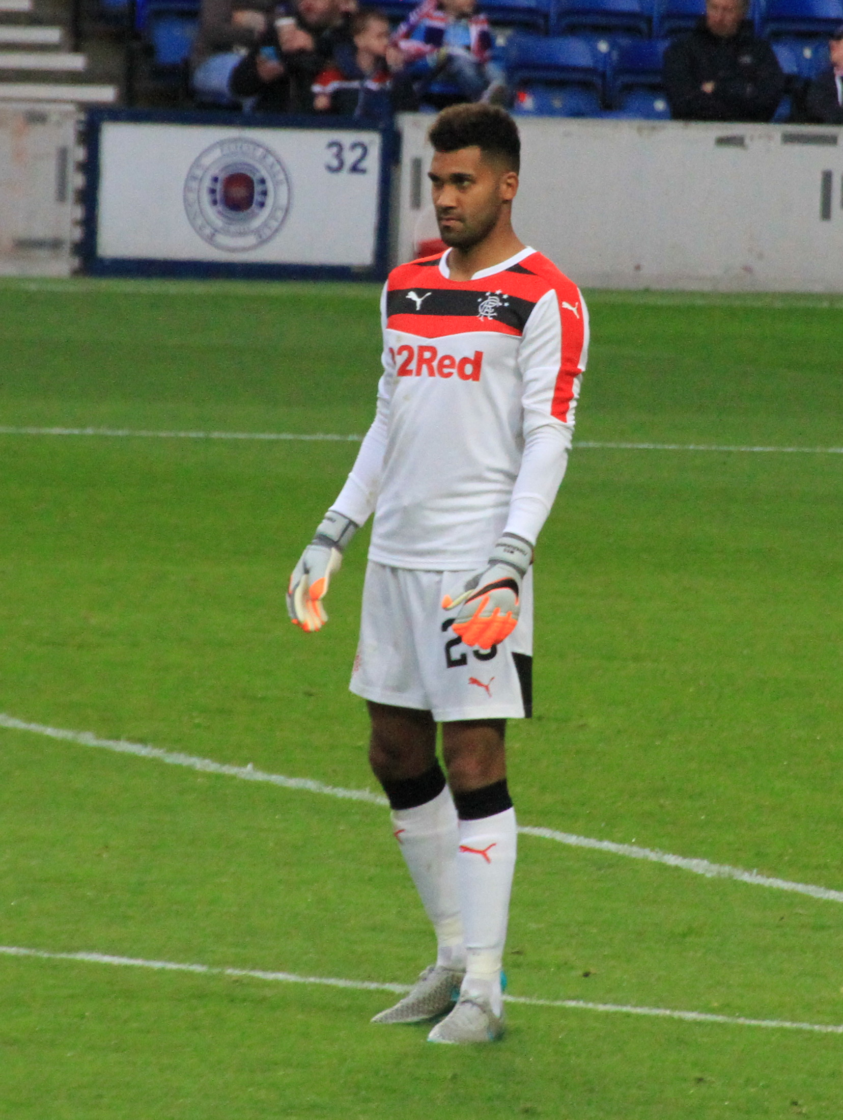 Wes Foderingham playing for Rangers in 2015.